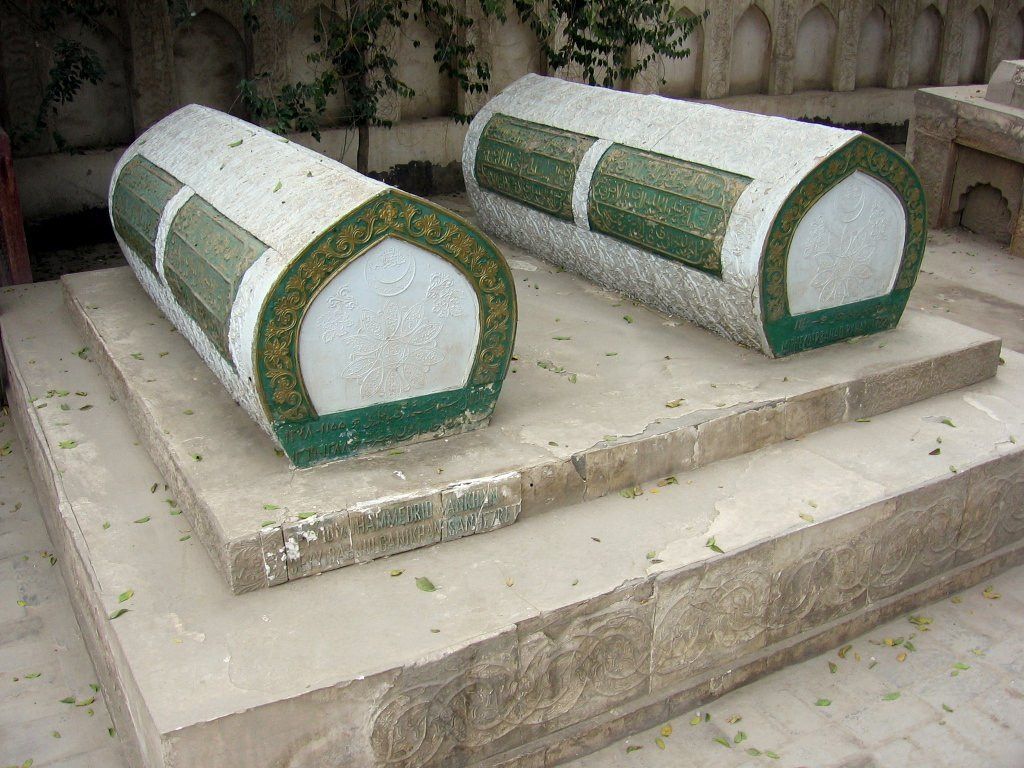 Yarkand (Sache) is an oasis city in the Xinjiang Uygur Autonomous Region of the People's Republic of China. Yarkand Kingdom Cemetery at Altyn Mosque complex.